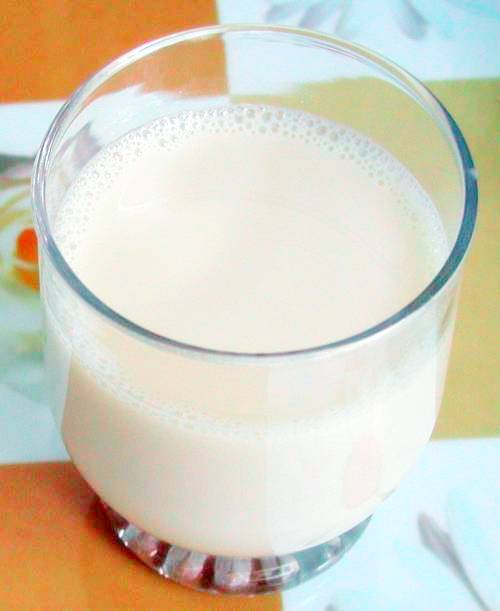 A glass of soy-rice milk ("Soja-Reis Drink Natur" made in Germany by "Alnatura"). Brightened version of the old photo.